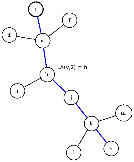 Given the tree rooted at node r, the blue lines show the path from the root to node v. The Level Ancestor(v,2) is the node h as it is marked in the image.